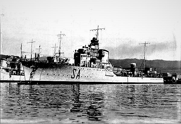 The Regia Marina ship Saetta (SA) of Freccia-class destroyer in the official photo of the Regia Marina.